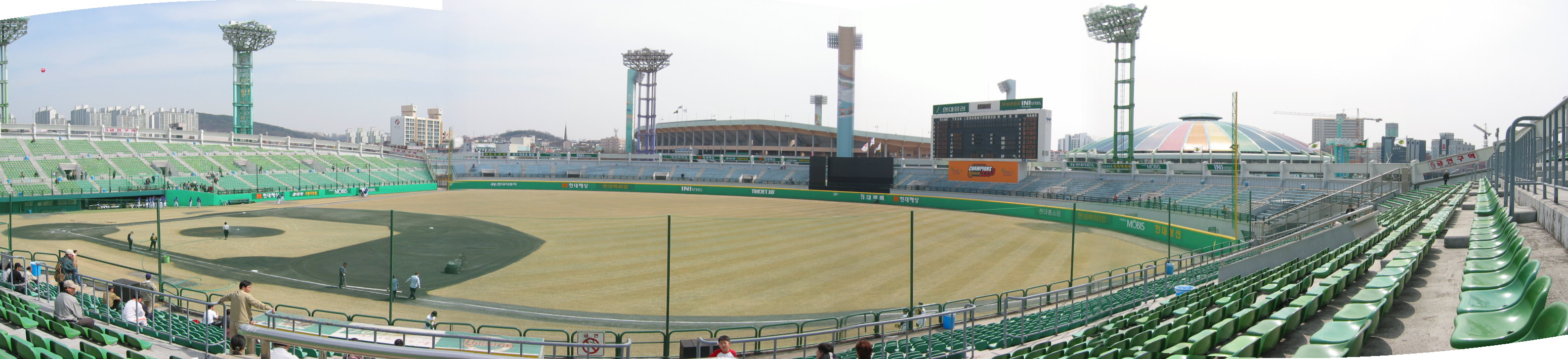 my own photo, accompanies Hyundai Unicorns. 11:35, 15 February 2006 . . Deiz . . 3173×726 (535,896 bytes)